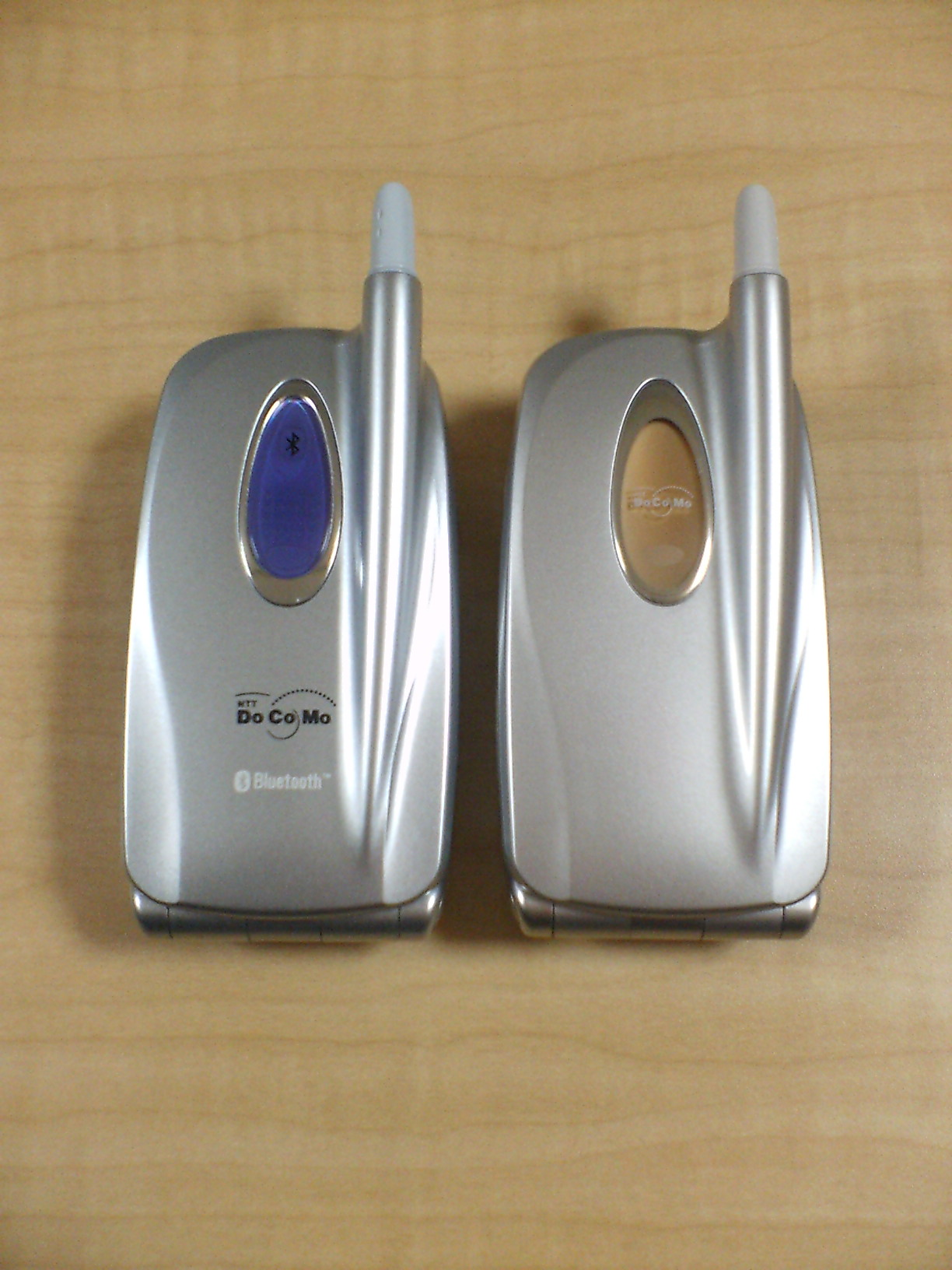 NTT DoCoMo/Sharp 633S/642S PHS mobile phone